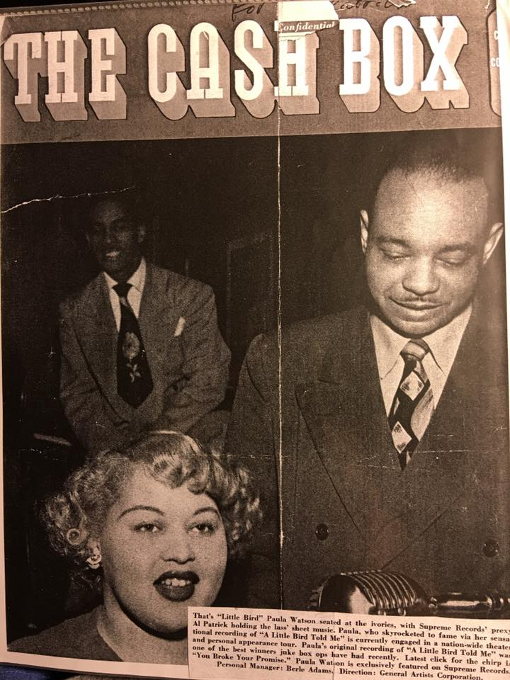 Albert Patrick, Founder and CEO of Supreme Records, on the cover of Cash Box Magazine.